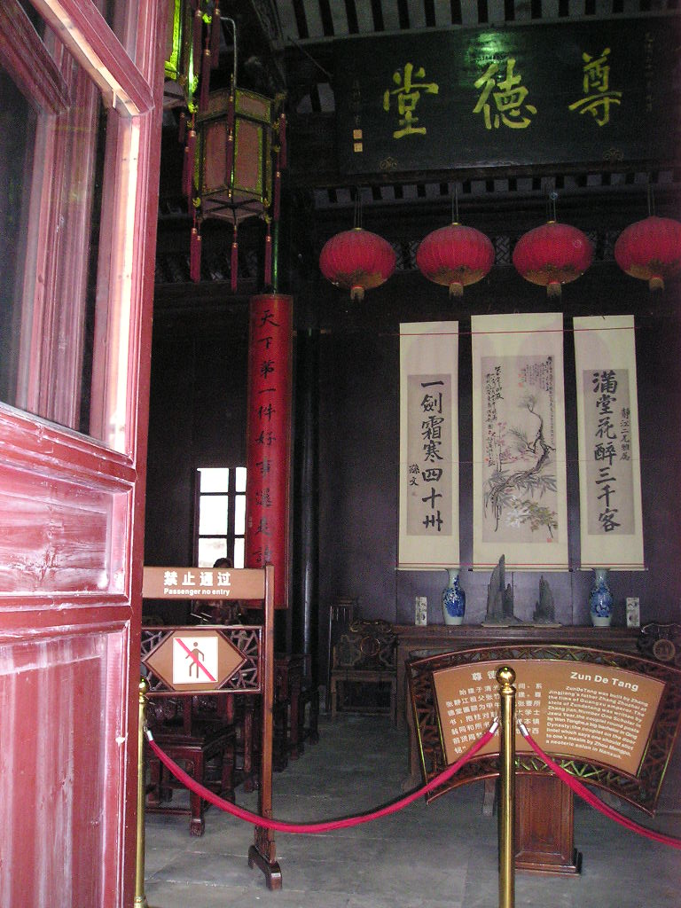 Former residence of GMD politician Zhang Jingjiang in Nanxun, Zhejiang, China.